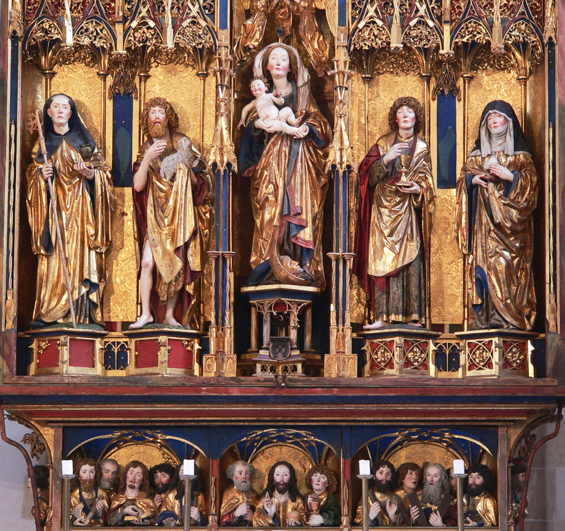 Kloster Blaubeuren, Klosterkirche, Hochaltar, Schrein und Predella - Blaubeuren/Germany Michel Erhart Alternative namesErhart, MichaelDate of birth/deathbetween circa 1440 and circa 1445after 1552Location of birth/deathUlm (?)Work locationUlmAuthority control VIAF: 45096461 LCCN: n83198675 GND: 118685147 ISNI: 0000 0000 8124 0348 WorldCat WP-Person